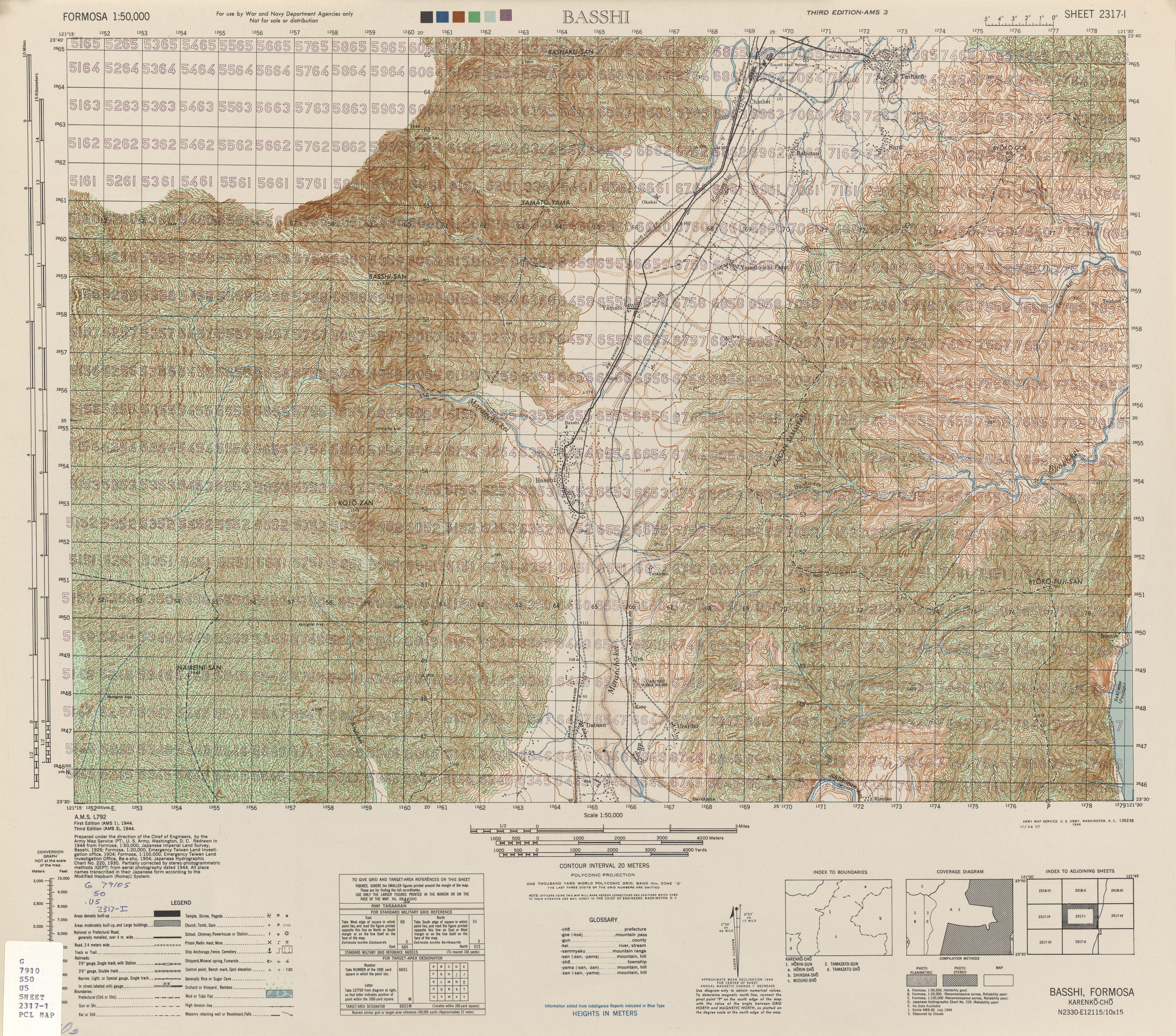 Map from Formosa (Taiwan) 1:50,000 AMS Series L792